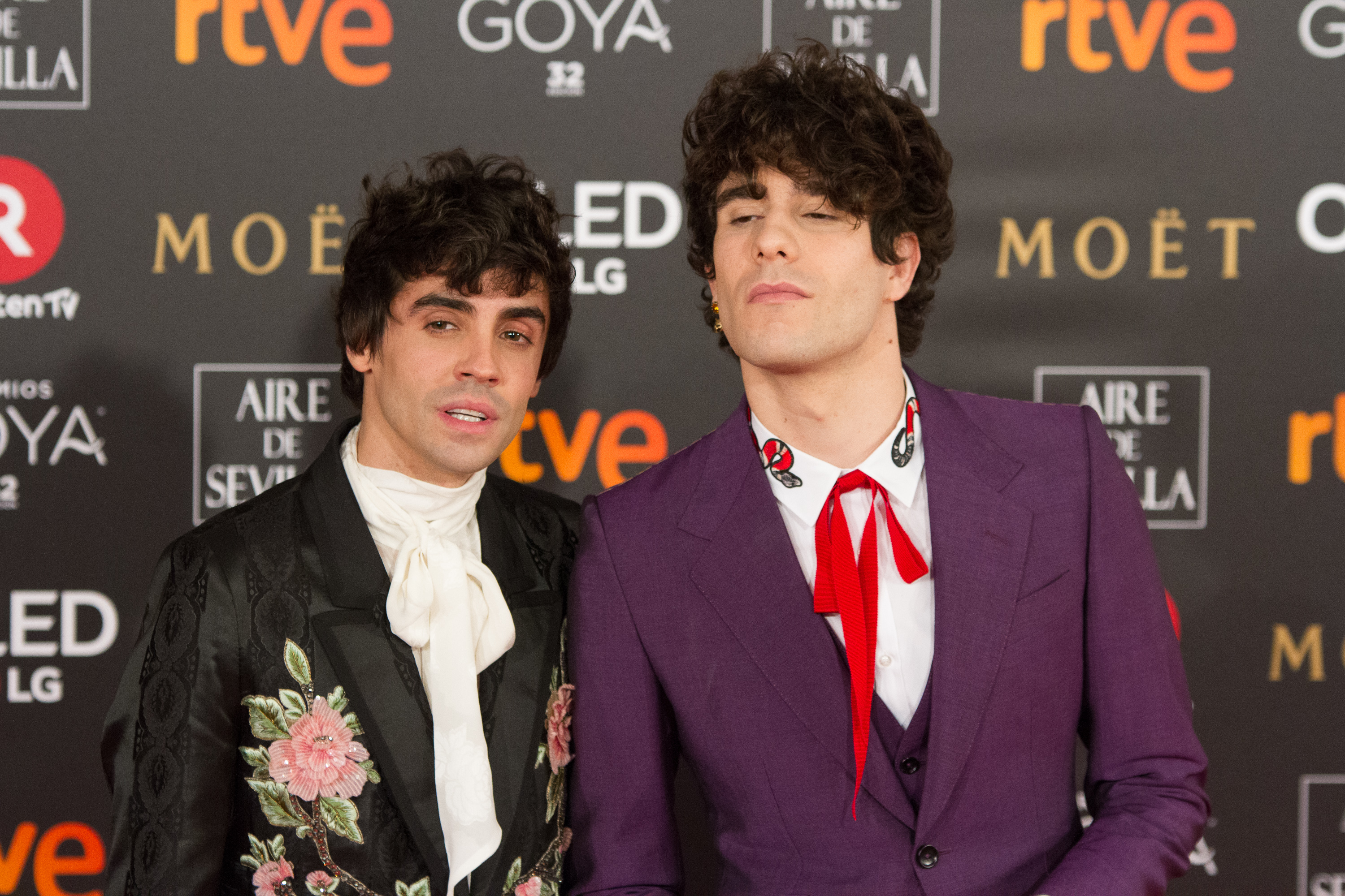 32nd Goya Awards, 2018.